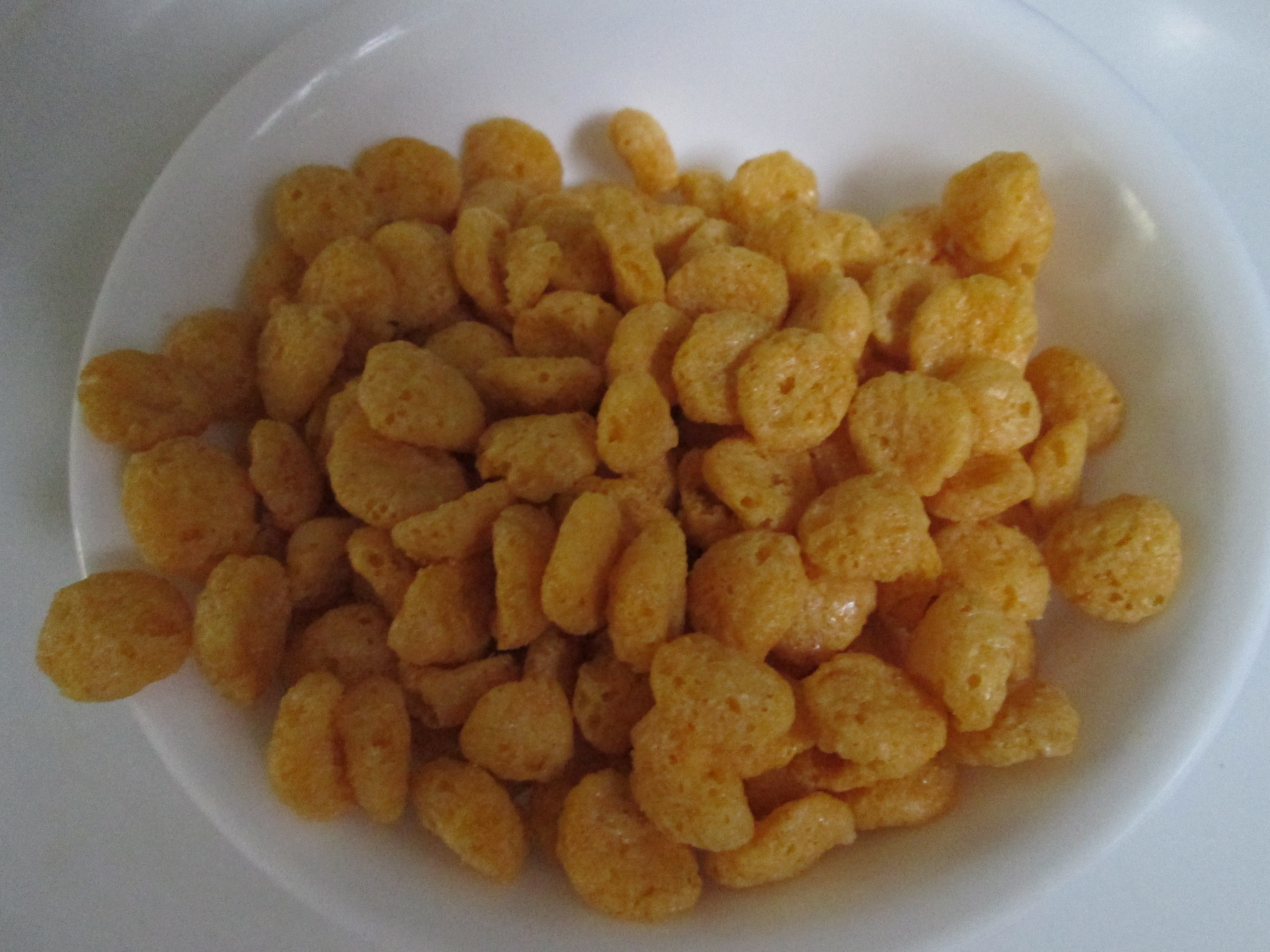 Bowl of "Quisp" brand breakfast cereal.